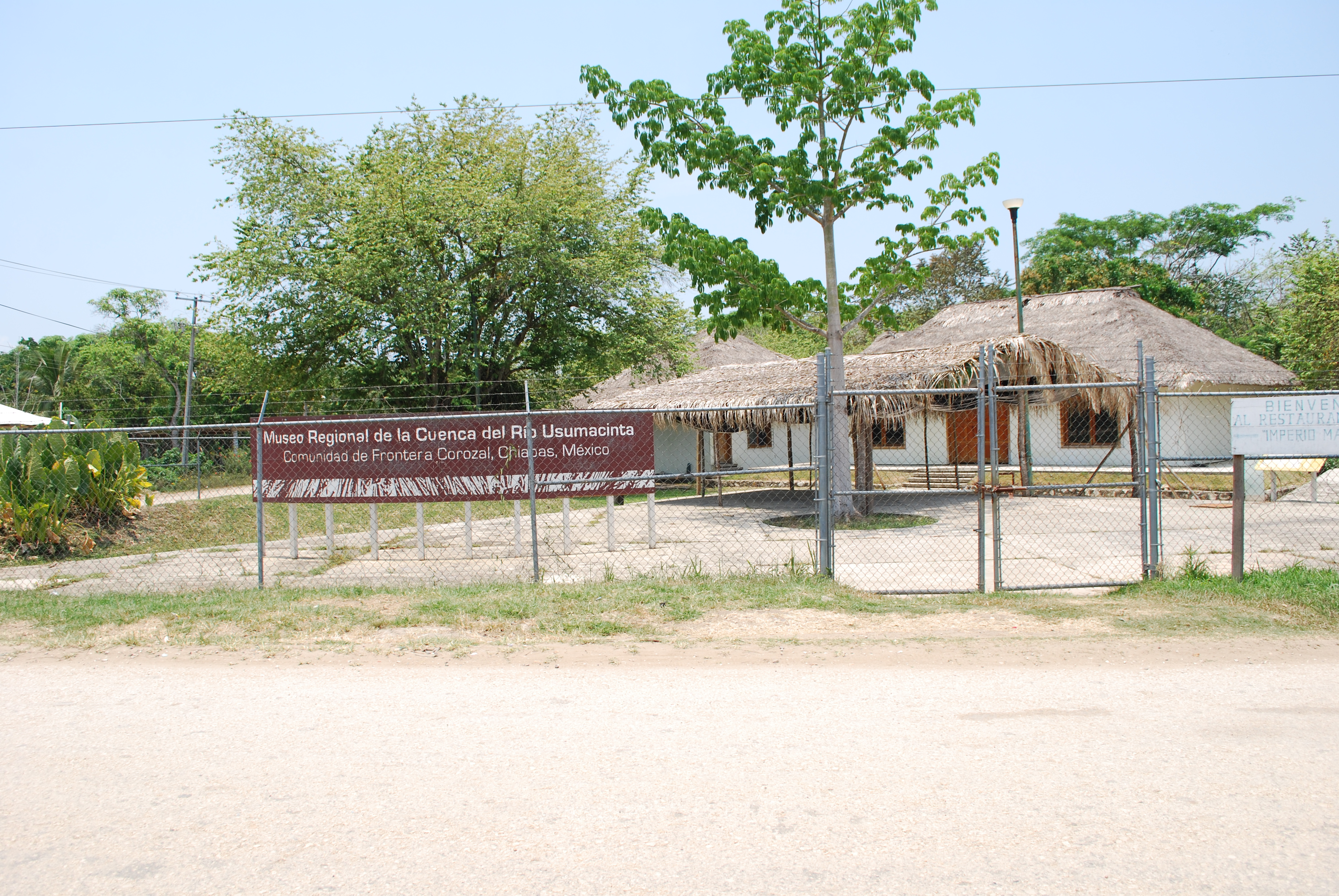 Regional Museum of the Usumacinta River in Frontera Corozal, Ocosingo, Chiapas, Mexico